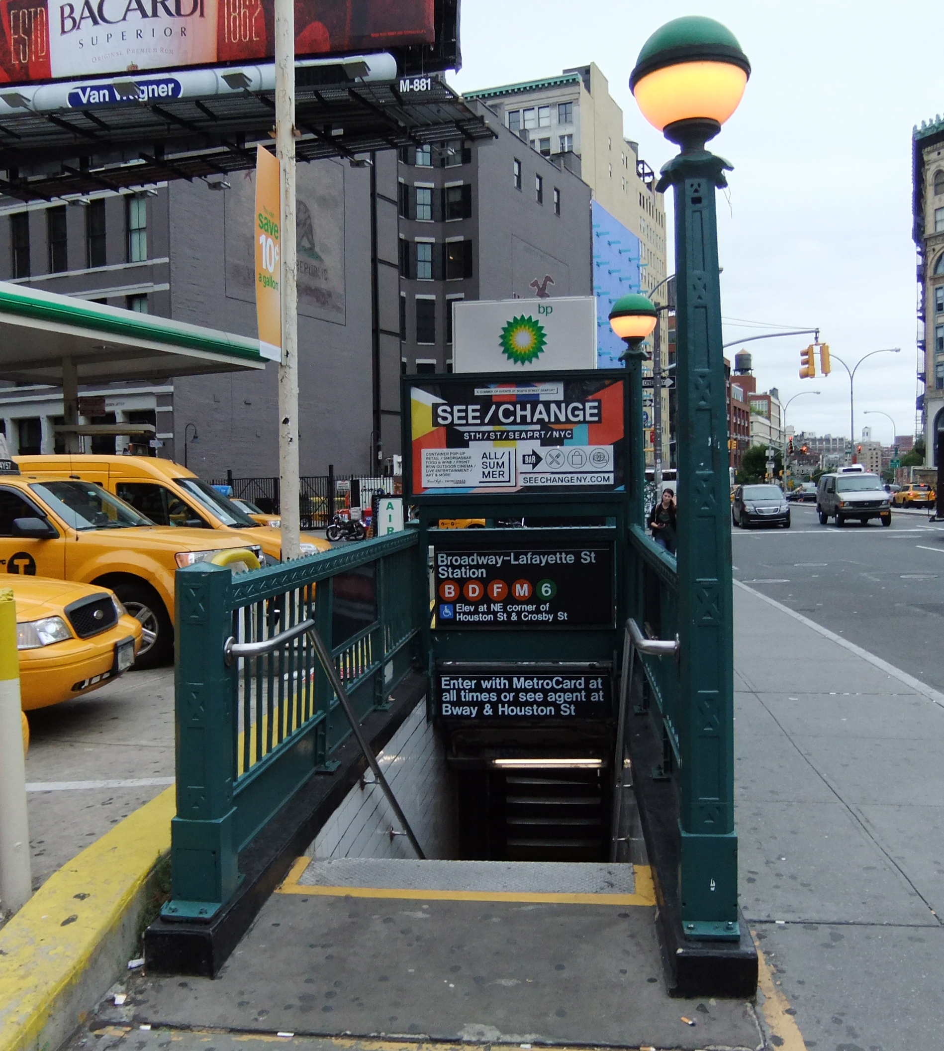 Entrance to Broadway-Lafayette/Bleecker Street at Houston Street and Crosby Street.